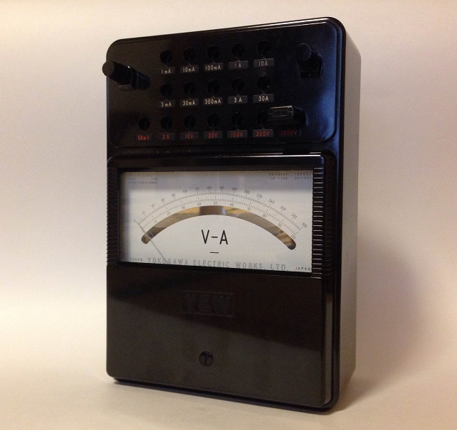 Example of the use of phenolic resin.